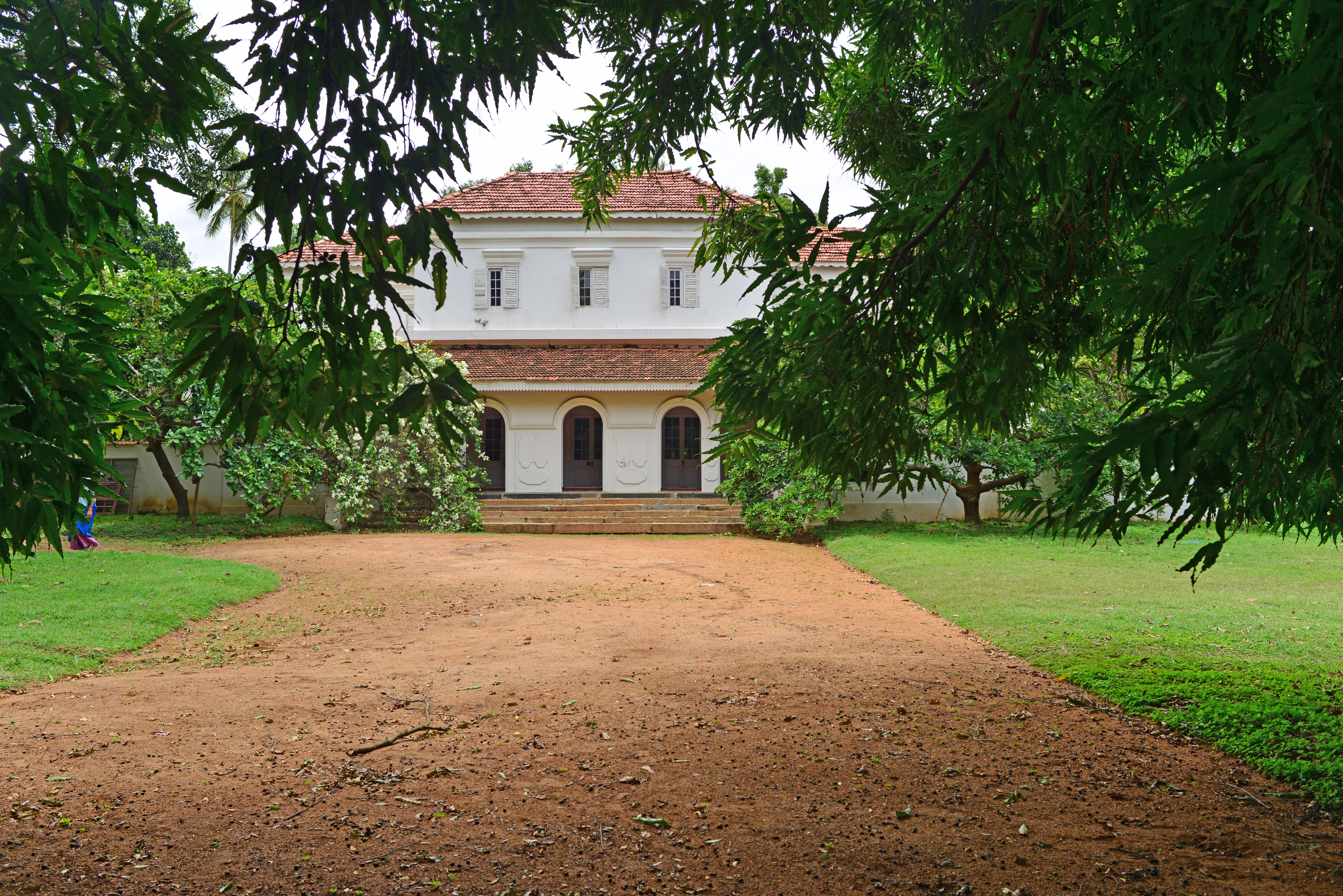 Bungalow of Col. Scott (? d.1807/1817) who took part in the siege of Srirangapatna and the defeat of Tippu Sultan. The poem The Deserted Bungalow by Aliph Cheem was inspired by this house. Now a private residence.